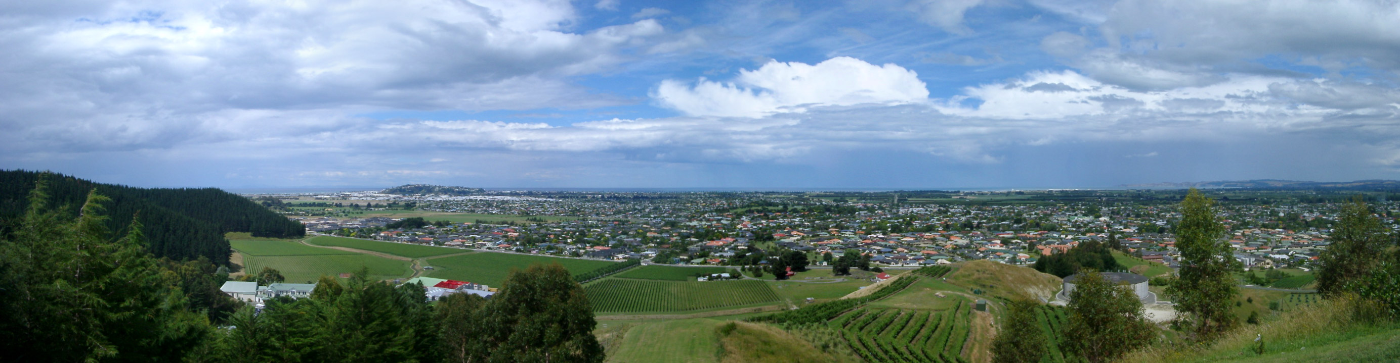 View of Napier, New Zealand, from Sugar Loaf hill. Author: Christiaan Briggs Time of creation: 15:25, 22 Dec 2005 (NZDT)